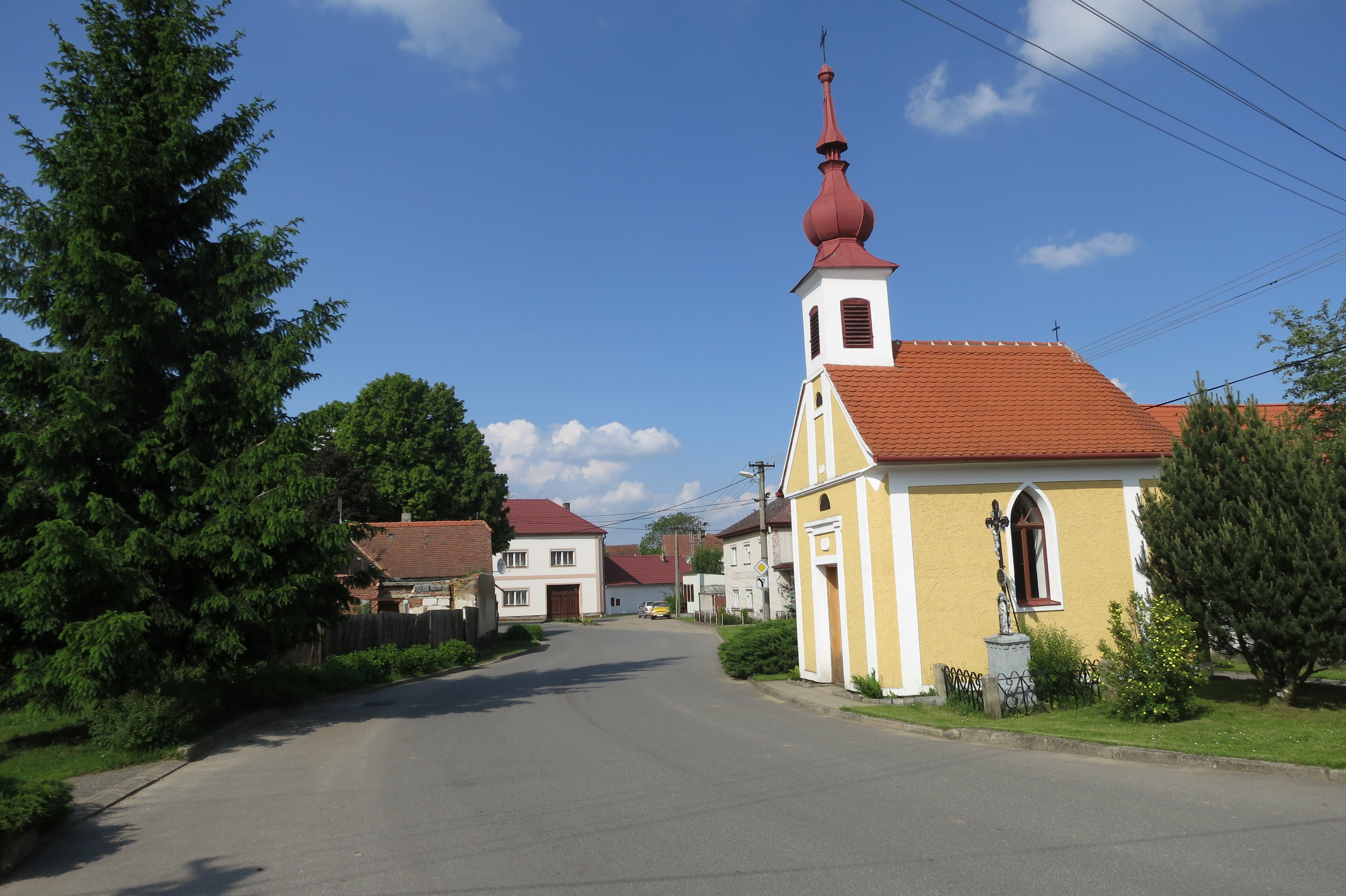 Center of Oponešice, Třebíč District.